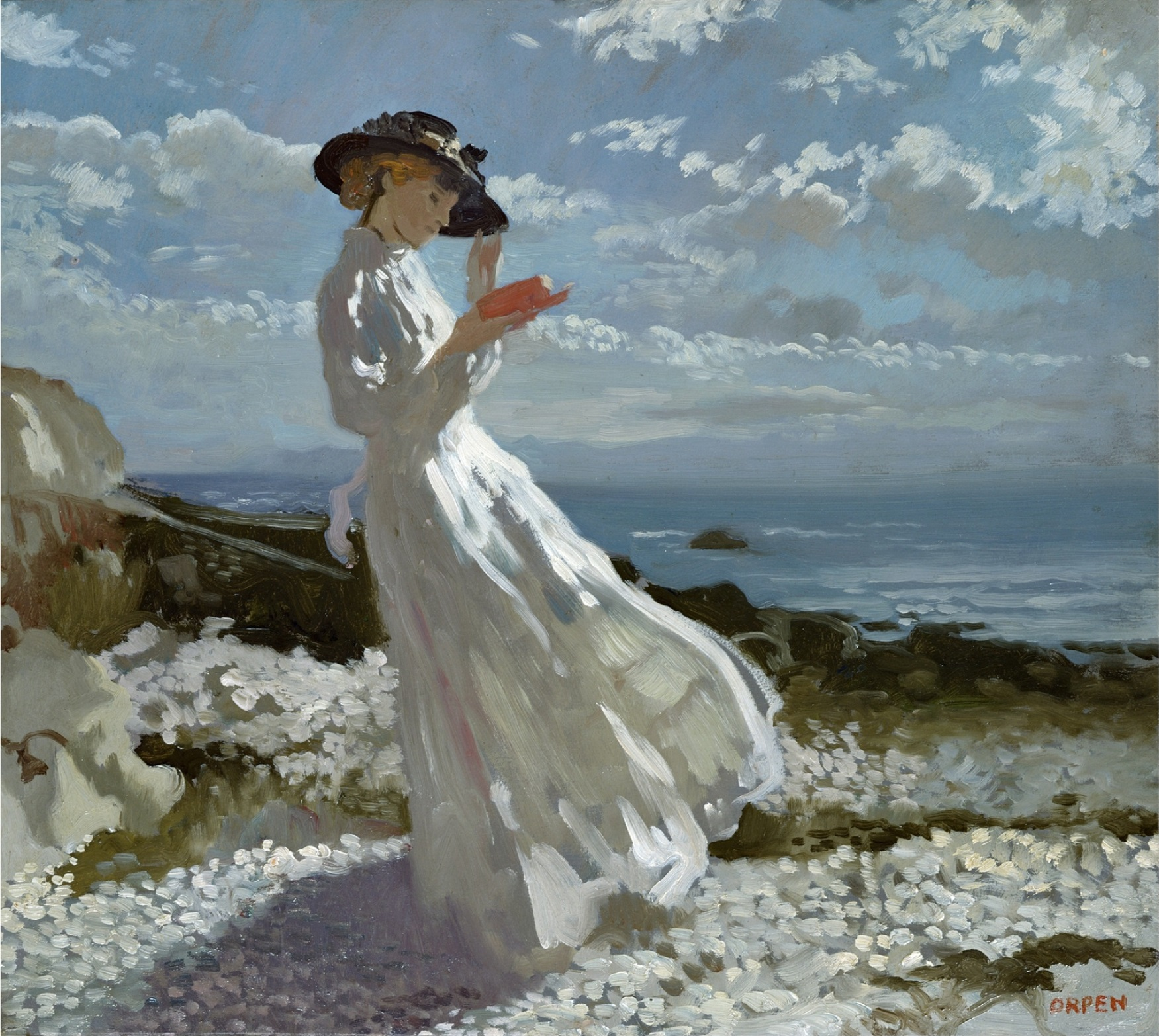 the artist's wife, Grace Knewstub